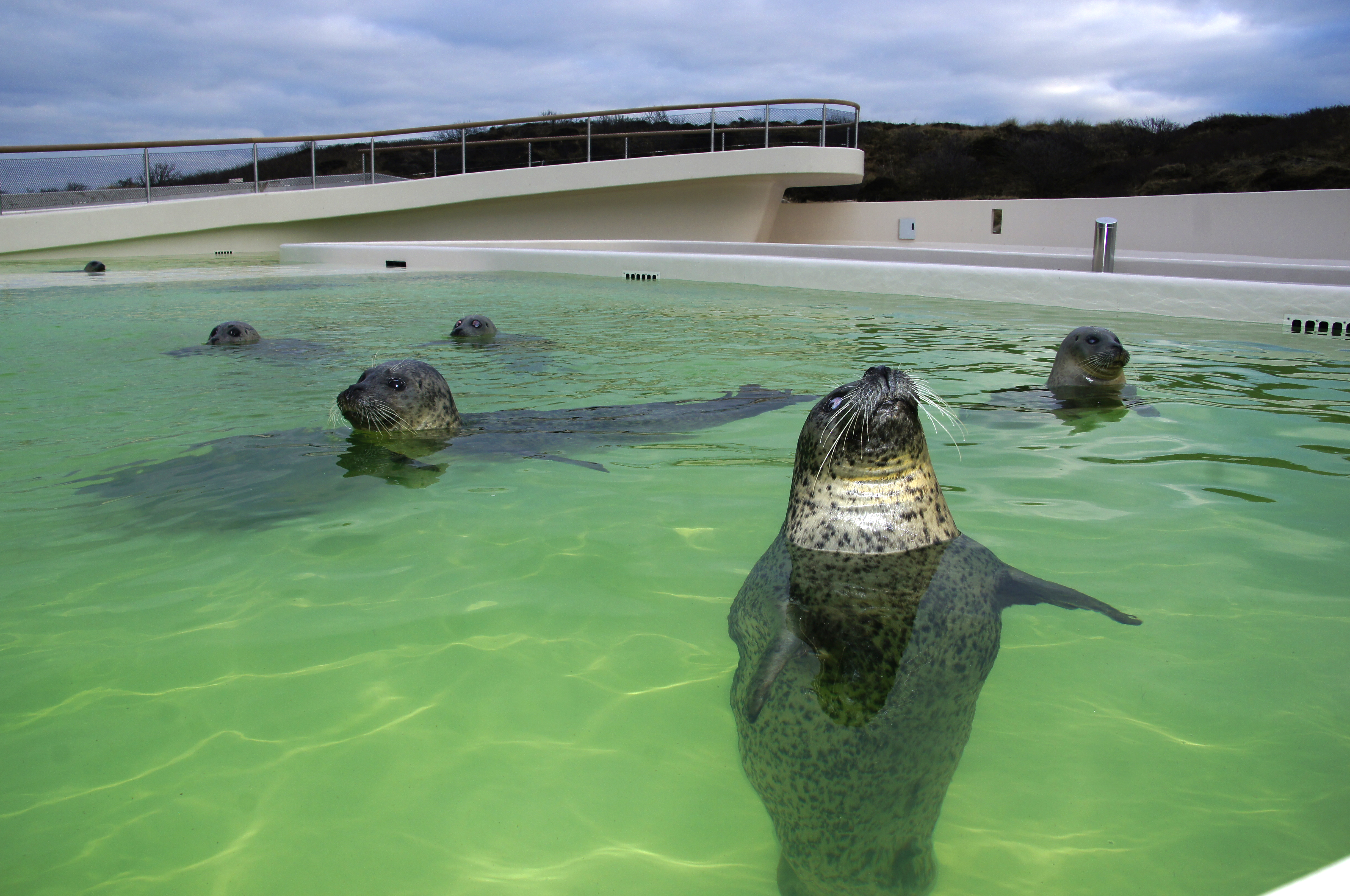 common seals in u shaped basin in Ecomare